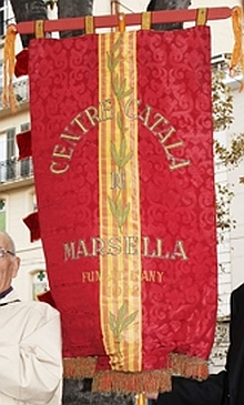 Pennant/banner of "Cercle Català de Marsella" the oldest catalan society in Europe (1918) outside homeland.